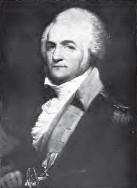 Winthrop Sargent from The Mississippi Territorial Archives 1798-1803, Vol. I, Dunbar Rowland, ed. Published in 1905 at Nashville, Tennessee by the Press of Brandon Printing Company, following page 8. "...after a copy of an oil painting by Gilbert Stuart, in the Mississippi Hall of Fame".